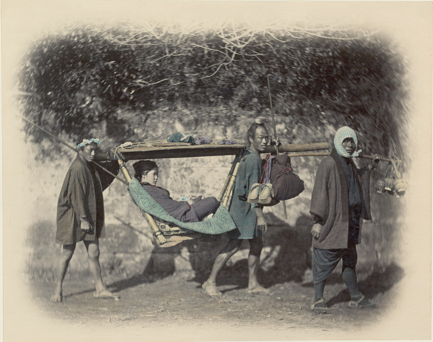 1 photographic print: hand coloring; image 21 x 26.6 cm., on mount 34.5 x 50 cm